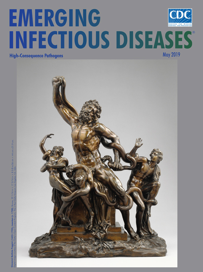 Laocoön and his two sons writhe and struggle, caught in the grip of the serpents that wind among their limbs. The father's large size, powerful musculature, and wild hair and beard contrast with his smaller, smoother-limbed sons. As retold in Greek mythology, the Trojan prince Laocoön angered Apollo by breaking a vow of celibacy he swore to the god and then warning the Trojans not to bring the wooden horse left by the Greeks into the city. To silence him, Apollo sent serpents from the sea to kill him and his sons. Giovanni Battista Foggini's bronze of this story is based on a famous marble sculpture of the Laocoön unearthed in Rome in 1506. The Roman historian Pliny had described this renowned sculpture in awed language, as "a work to be preferred to all that the arts of painting and sculpture have produced." Its celebrity prompted many bronze reductions, or smaller-scale copies including this one, made in Florence. Although it imitates an antique work, the emotionalism and frontality of this bronze are characteristics of the late Baroque Florentine style. This type of tabletop bronze was often displayed on a cabinet where it served as a souvenir of the "Grand Tour," evidence of its owner's classical education. This information is published from the Museum's collection database. Updates and additions stemming from research and imaging activities are ongoing, with new content added each week. Help us improve our records by sharing your corrections or suggestions. Creative Commons LicenseThe text on this page is licensed under a Creative Commons Attribution 4.0 International License, unless otherwise noted. Images and other media are excluded.